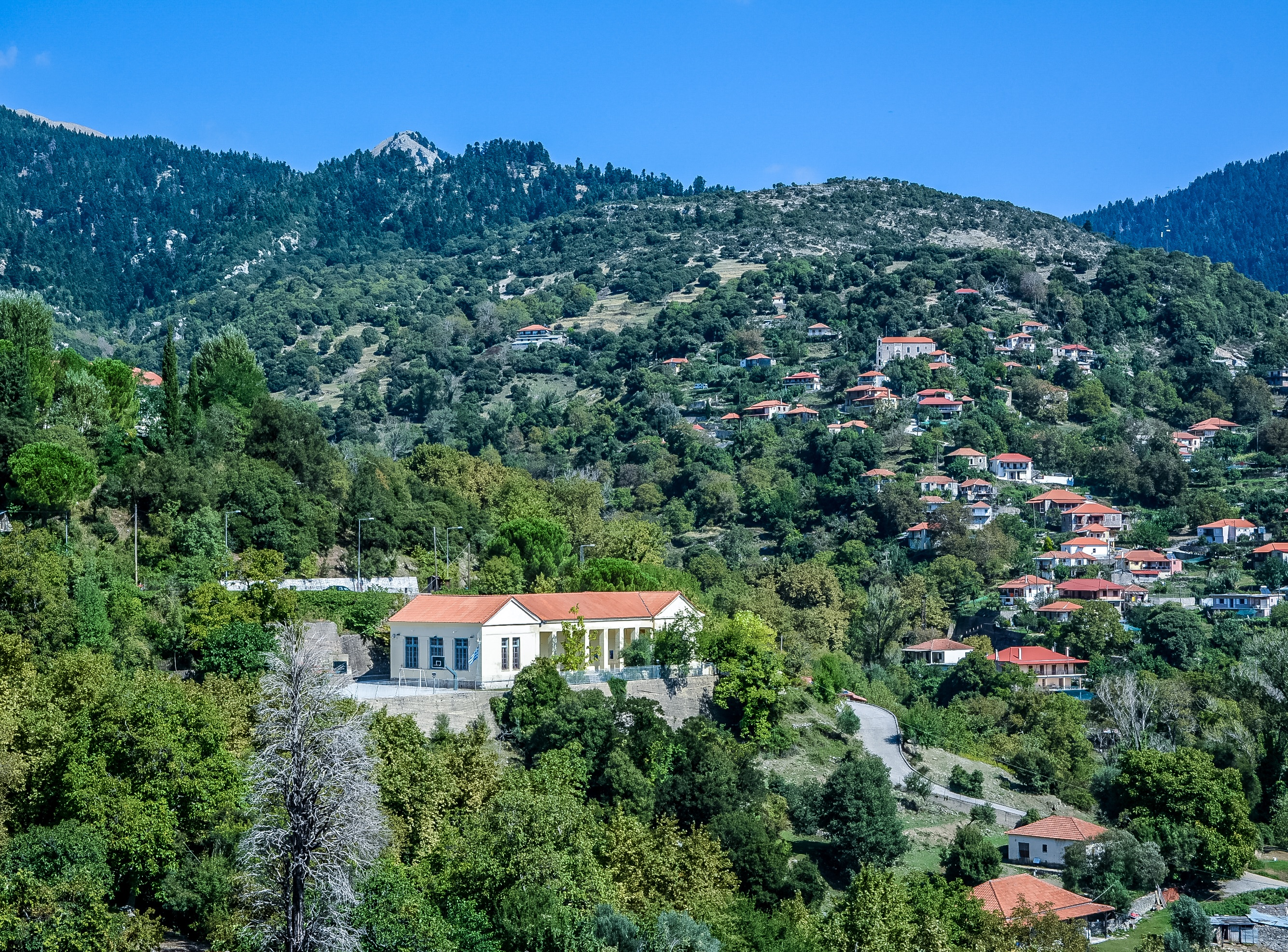 Εlementary school in Lampia (Divri), Ileia, Greece. It was built in 1907 with a donation of Andreas Syngros.«Δημοτικό Σχολείο Λαμπείας (Δίβρης)»